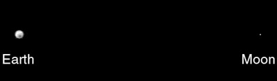 Odyssey's THEMIS took this portrait of the Earth and its companion Moon, using the infrared camera, one of two cameras in the instrument. It was taken at distance of 3,563,735 kilometers (more than 2 million miles). From this distance and perspective the camera was able to acquire an image that directly shows the true distance from the Earth to the Moon. The Earth's diameter is about 12,750 km, and the distance from the Earth to the Moon is about 385,000 km, corresponding to 30 Earth diameters. The dark region seen on Earth in the infrared temperature image is the cold south pole. The small bright region above it is warm Australia. Photo: NASA/JPL/Arizona State University